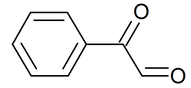 Structure of Phenylglyoxal